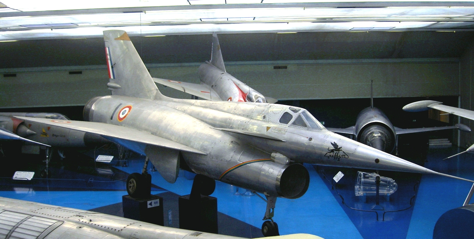 French experimental aircraft (Nord 1500 "Griffon II"), at the Musée de l’Air in the Bourget, France.